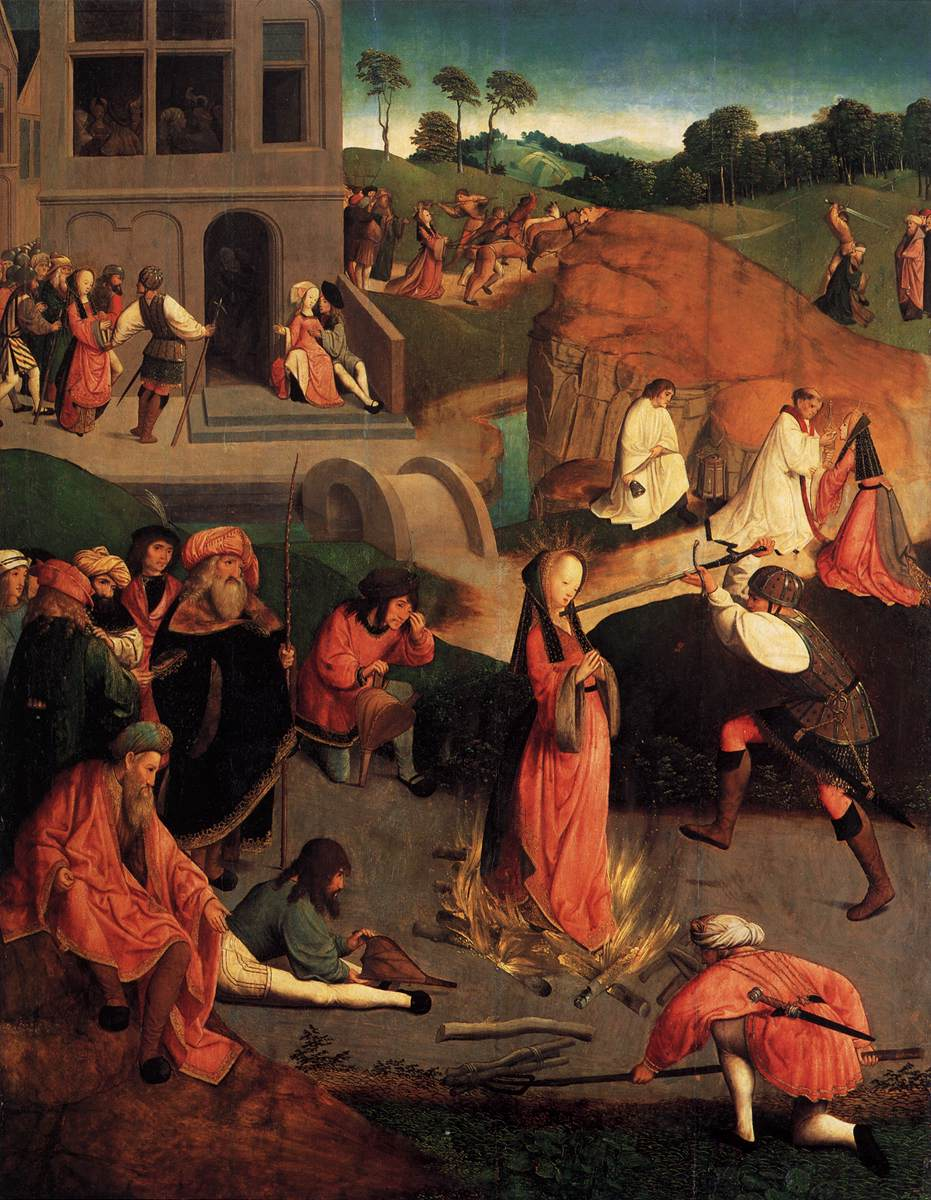 The Martyrdom of Saint Lucia. The sacred standing on a pyre is inserted through the neck by an executioner with a sword. Other executioners fanning the flames with bellows, left, look to authority figures. In the background scenes from the life of the saint. Rear left is Lucia for a brothel, on the right a couple making love, they also try one Lucia with a wing to drag oxen Lucia gets a priest last rites are allotted, the right, the governor Paschasius beheaded. The panel was originally the reverse of the Deposition, formerly in the Kaiser-Friedrich-Museum (see File:Figdor Descente de croix.jpg).